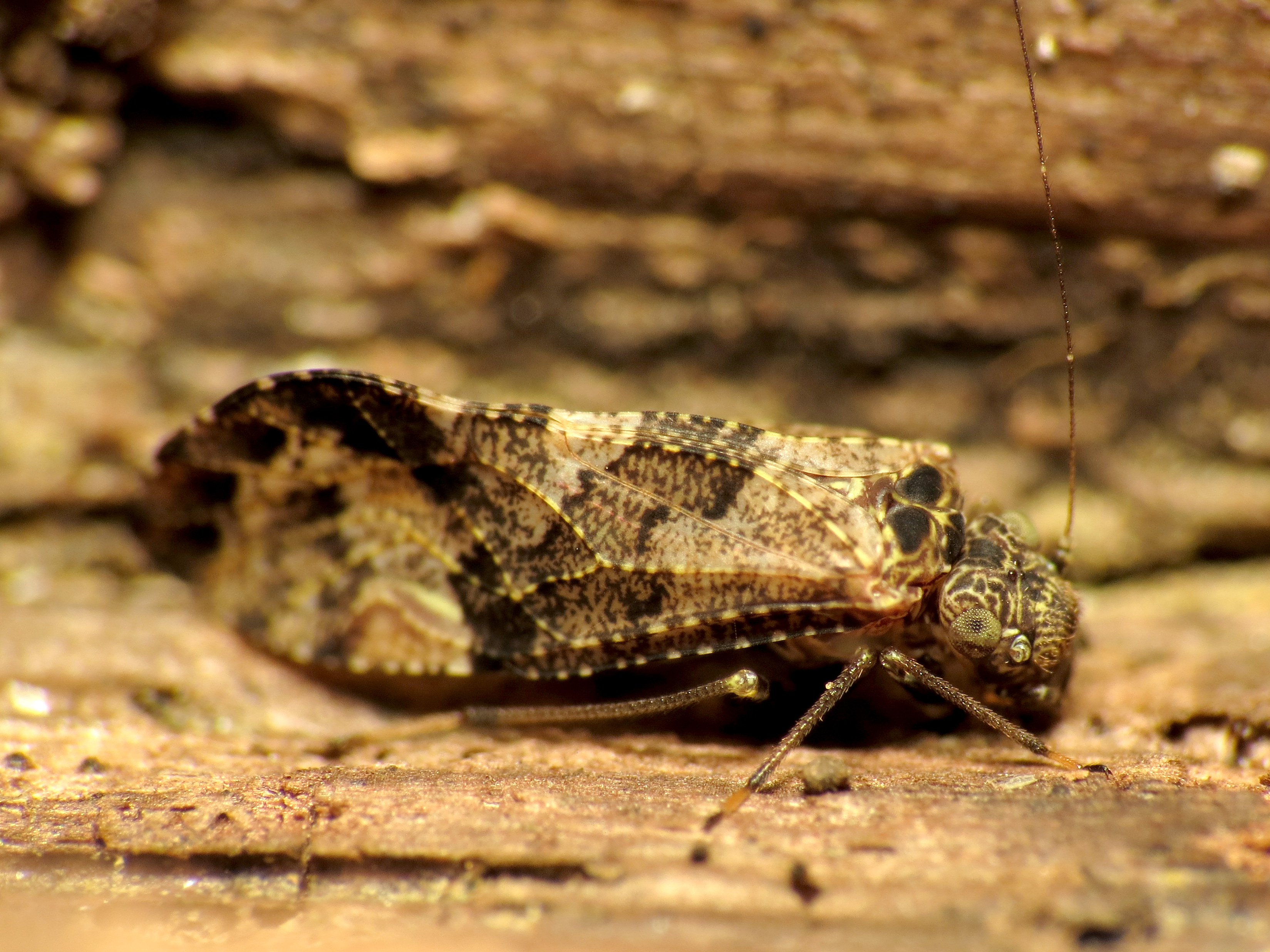 Lichenomima sp. Rock Creek Park, Washington, DC, USA.